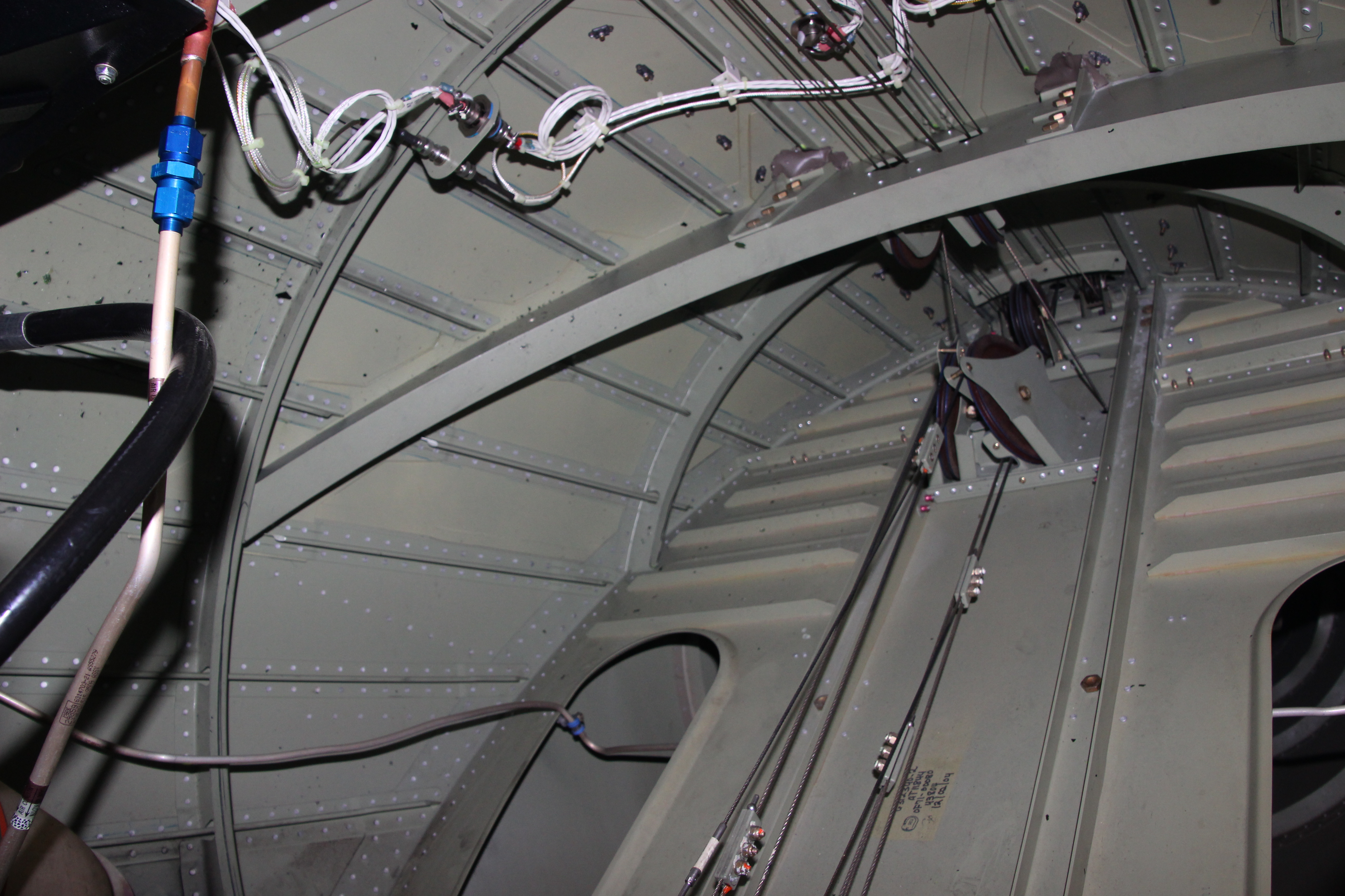 Inside the rear fuselage of an aircraft, showing the semi-monocoque aluminium-alloy structure. Digital image taken by YSSYguy on 1 April 2015 and uploaded for use in the Semi-monocoque article. YSSYguy (talk) 02:56, 6 November 2016 (UTC)